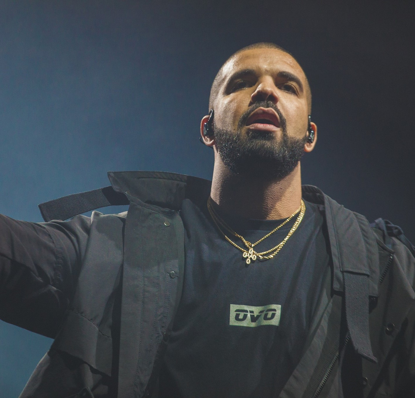 Summer Sixteen Tour 2016 in Toronto.